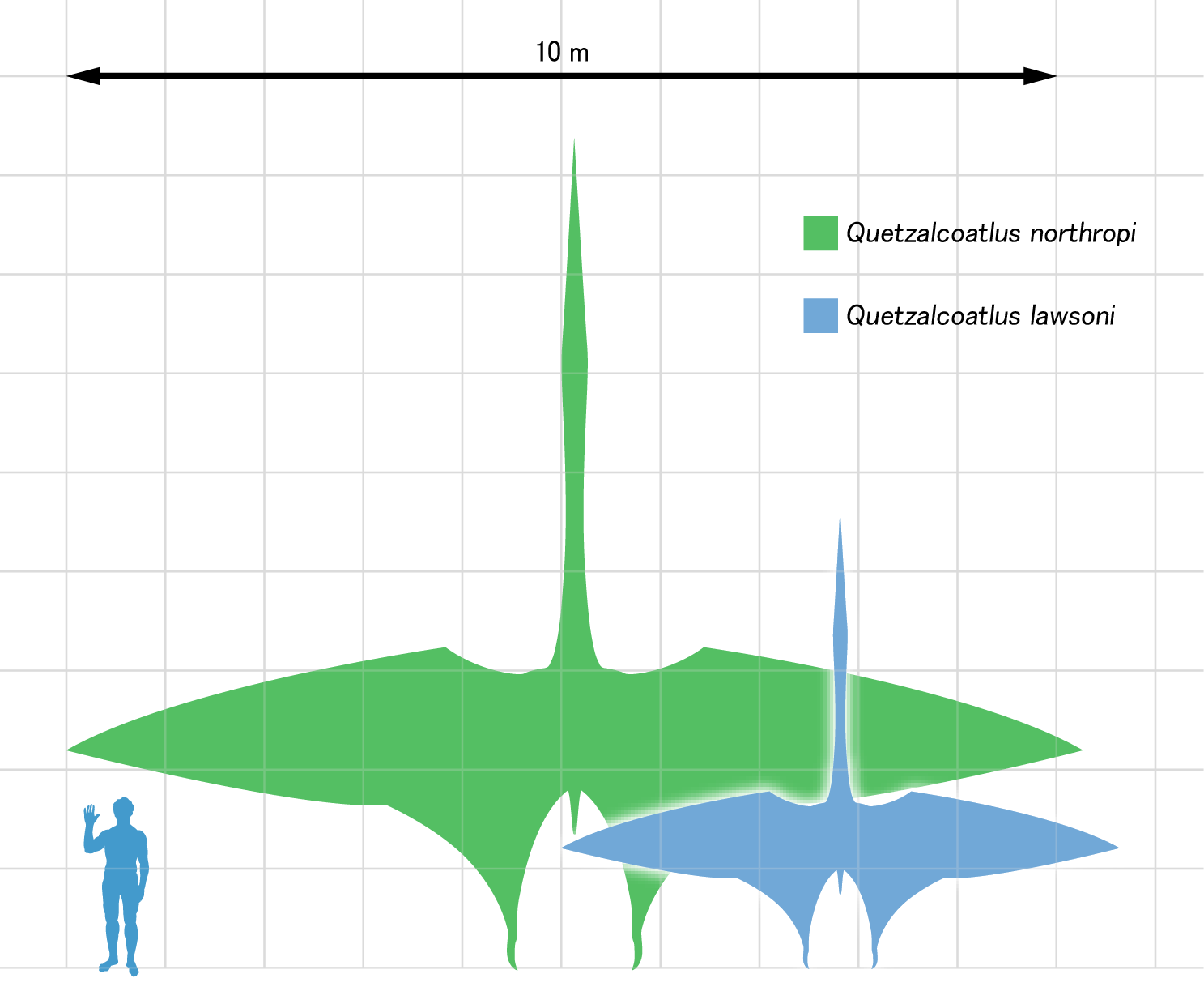 Size comparison of the azhdarchid pterosaurs Quetzalcoatlus northropi and Quetzalcoatlus unnamed species, with a human. Modified from a diagram featured in Witton and Naish (2008).